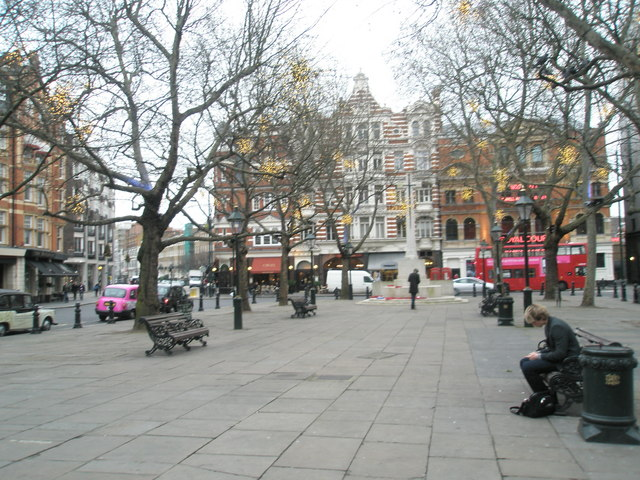 Christmas lights in Sloane Square